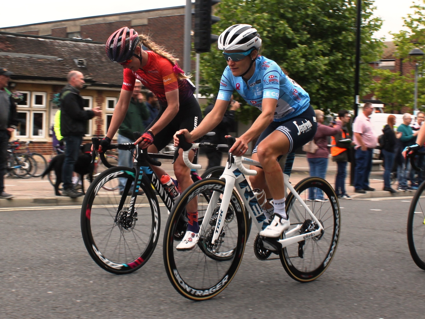 Two of Britain's top cyclists ride through Didcot on the third stage of the 2019 Women's Tour. Hannah barnes is in red while Lizzie Deignan is wearing the blue 'best British rider' jersey for the tour and went on to win overall.